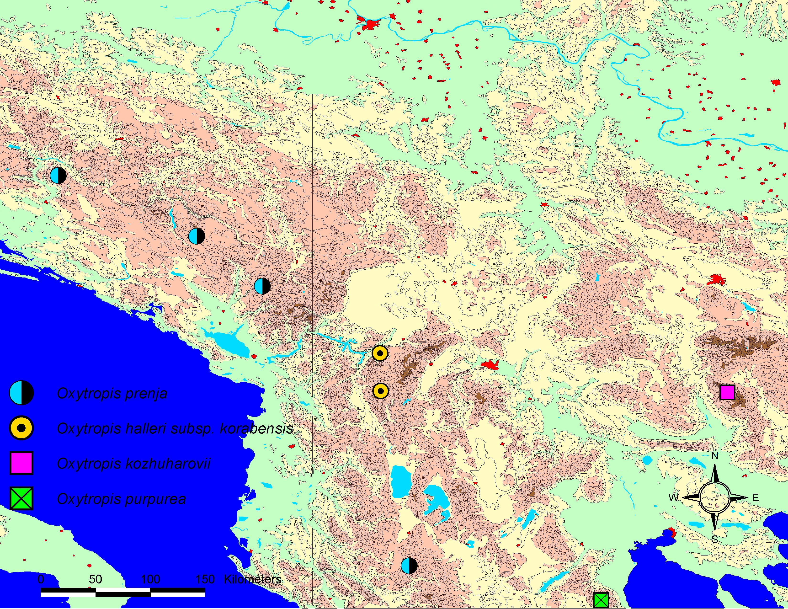 Distributinoal map Oxytropis prenja